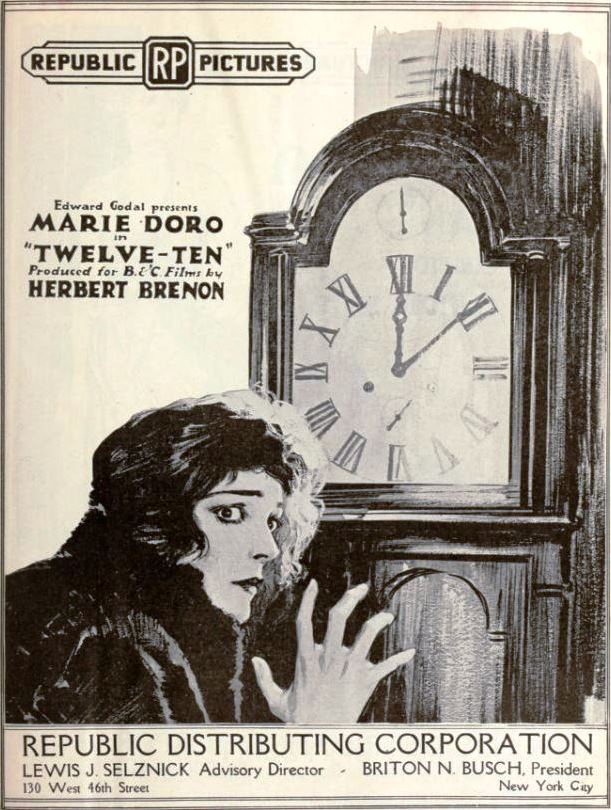 American advertisement for the British mystery film 12.10 (1919), listed in the ad as Twelve-Ten, with Marie Doro, on page 8 of the December 20, 1919 Exhibitors Herald. The ad consists of a drawing and does not have any stills from the film.